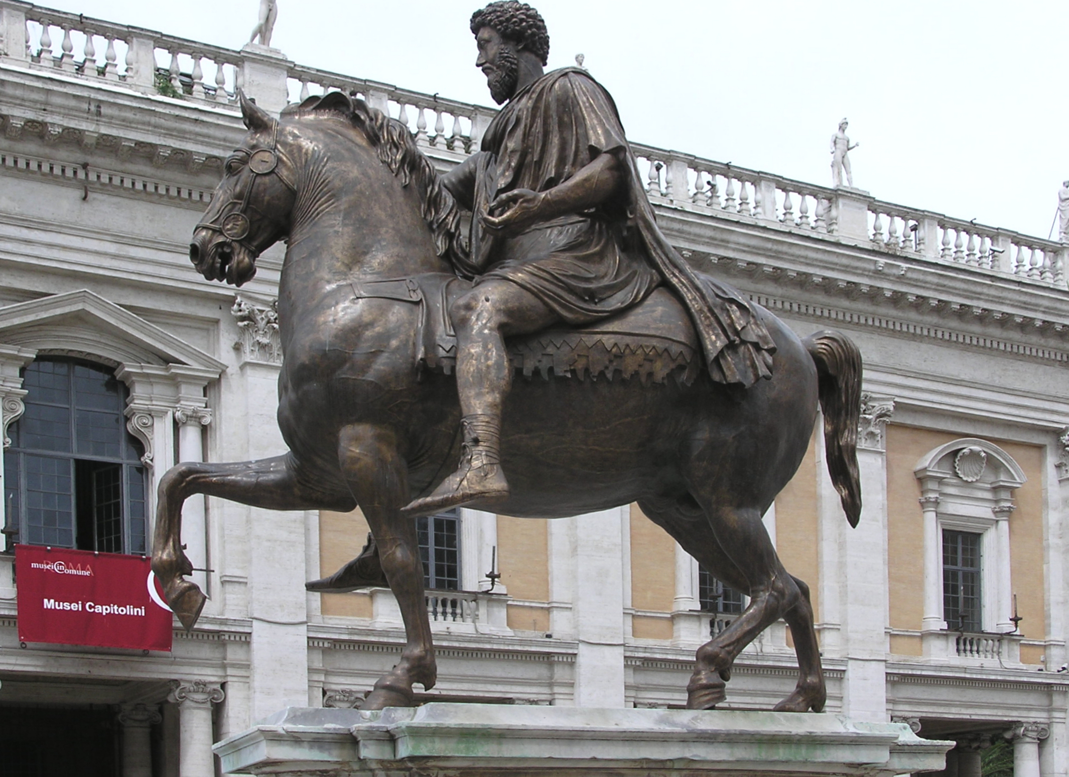 The replica statue of Roman Emperor, Marcus Aurelius, in the Piazza Campidoglio, Rome, Italy. The original is in the nearby Capitoline Museum.